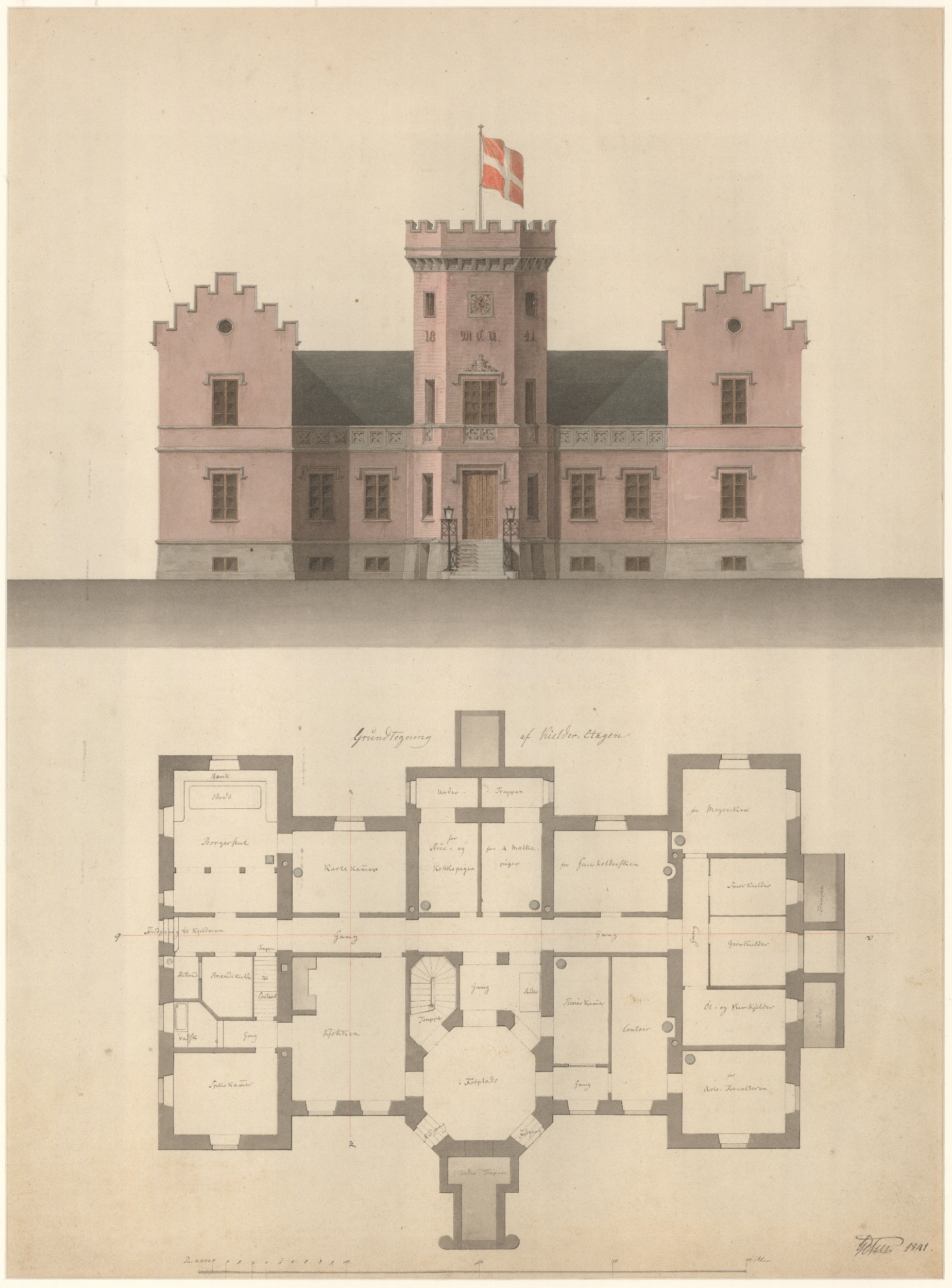 One of two unrealized proposals created by G. F. Hetsch for a new main building for Gerdrup Manor at Skælskør, Denmark